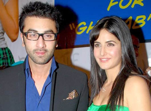 Ranbir Kapoor and Katrina Kaif at APKGK success party